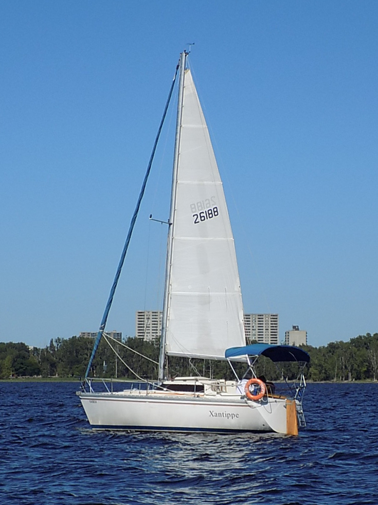 A Jeanneau 27 Fantasia sailboat named Xantippe.